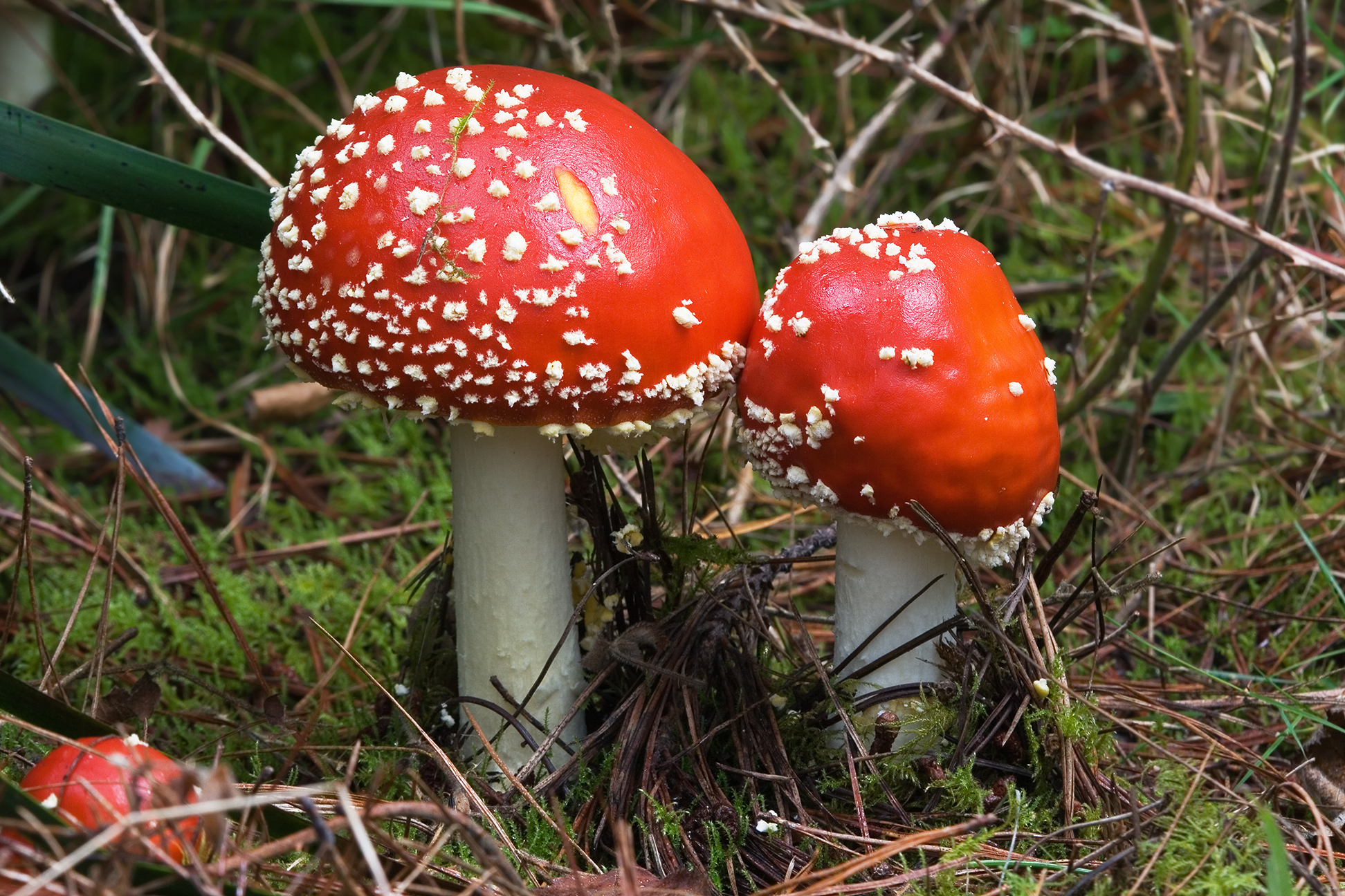 Amanita muscaria, Tasmania, Australia Camera data Camera Canon EOS 400D Lens Tamron EF 180mm f3.5 1:1 Macro Flash Umbrella Right Focal length 180 mm Aperture f/11 Exposure time 1/3 s Sensivity ISO 100